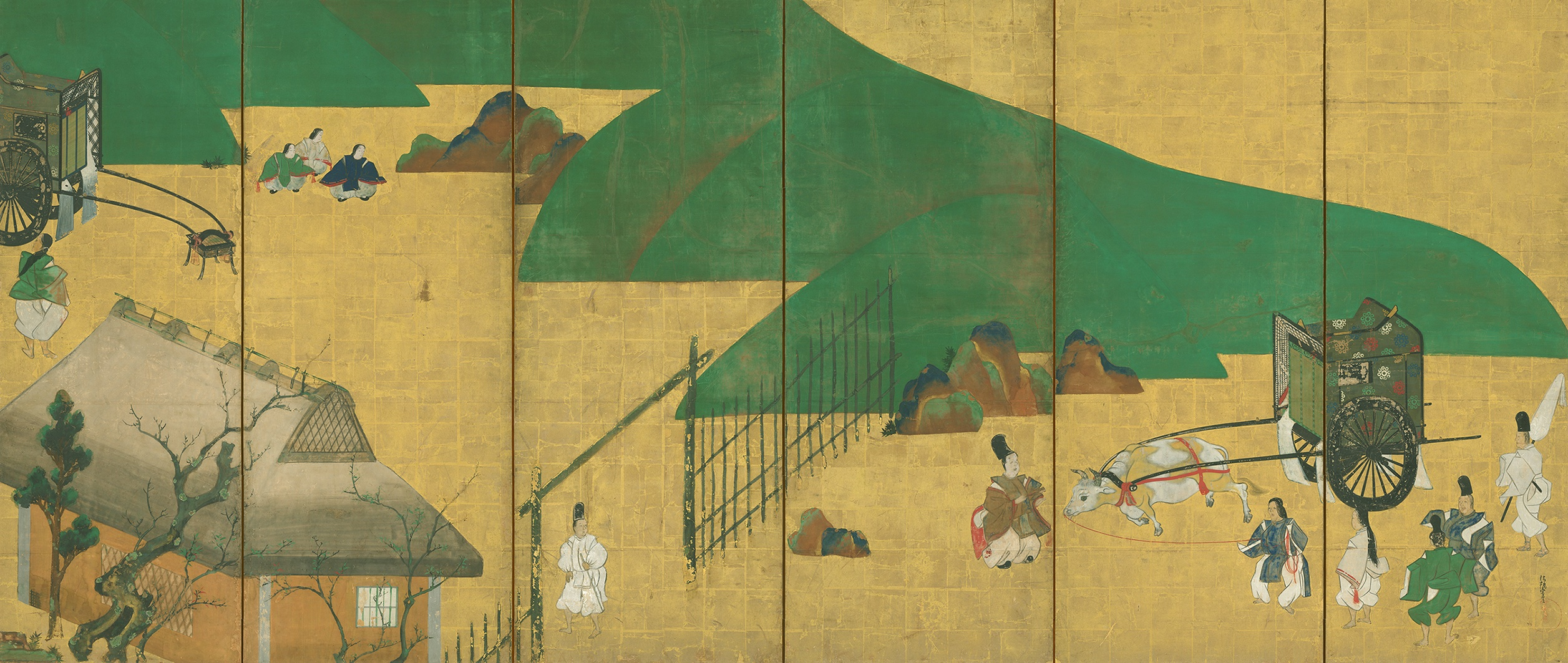 Painting of the chapter Sekiya from The Tale of Genji (紙本金地著色源氏物語関屋図, shihonkinjichoshoku genji monogatari sekiya zu). One of two six-section folding screens (byōbu). Ink and color on paper with gold leaf background. The screen has been designated as National Treasure of Japan in the category paintings.